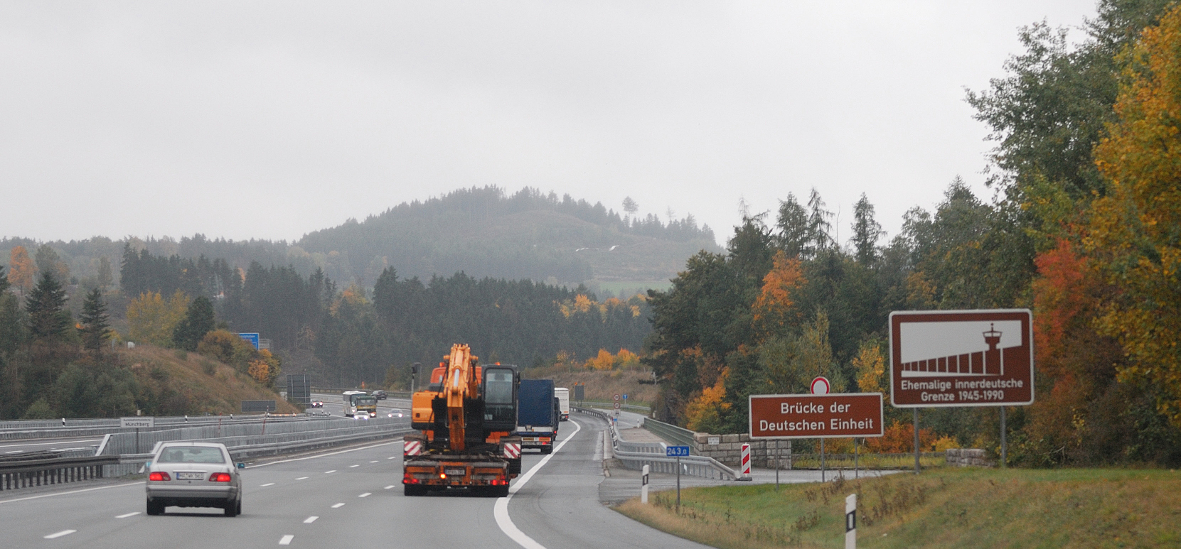 Highway bridge on the federal border between Thuringia and Bavaria, Germany, formerly also between West and East Germany. Road shot from the A 9.